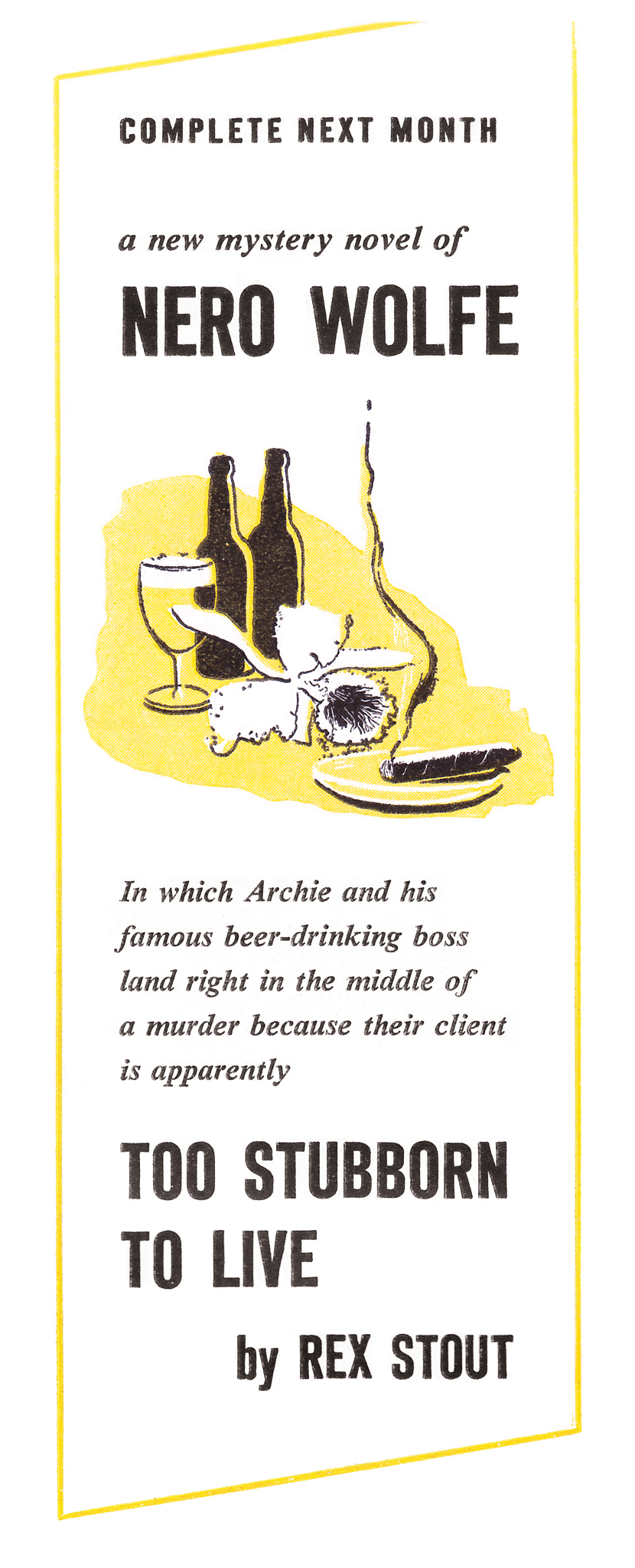 Promotional teaser for a Nero Wolfe story by Rex Stout that was titled "Instead of Evidence" when collected in book form. The title of the story is "Too Stubborn to Live" in the April 1946 teaser; it was changed to "Murder on Tuesday" when it was published in the May 1946 issue of The American Magazine.